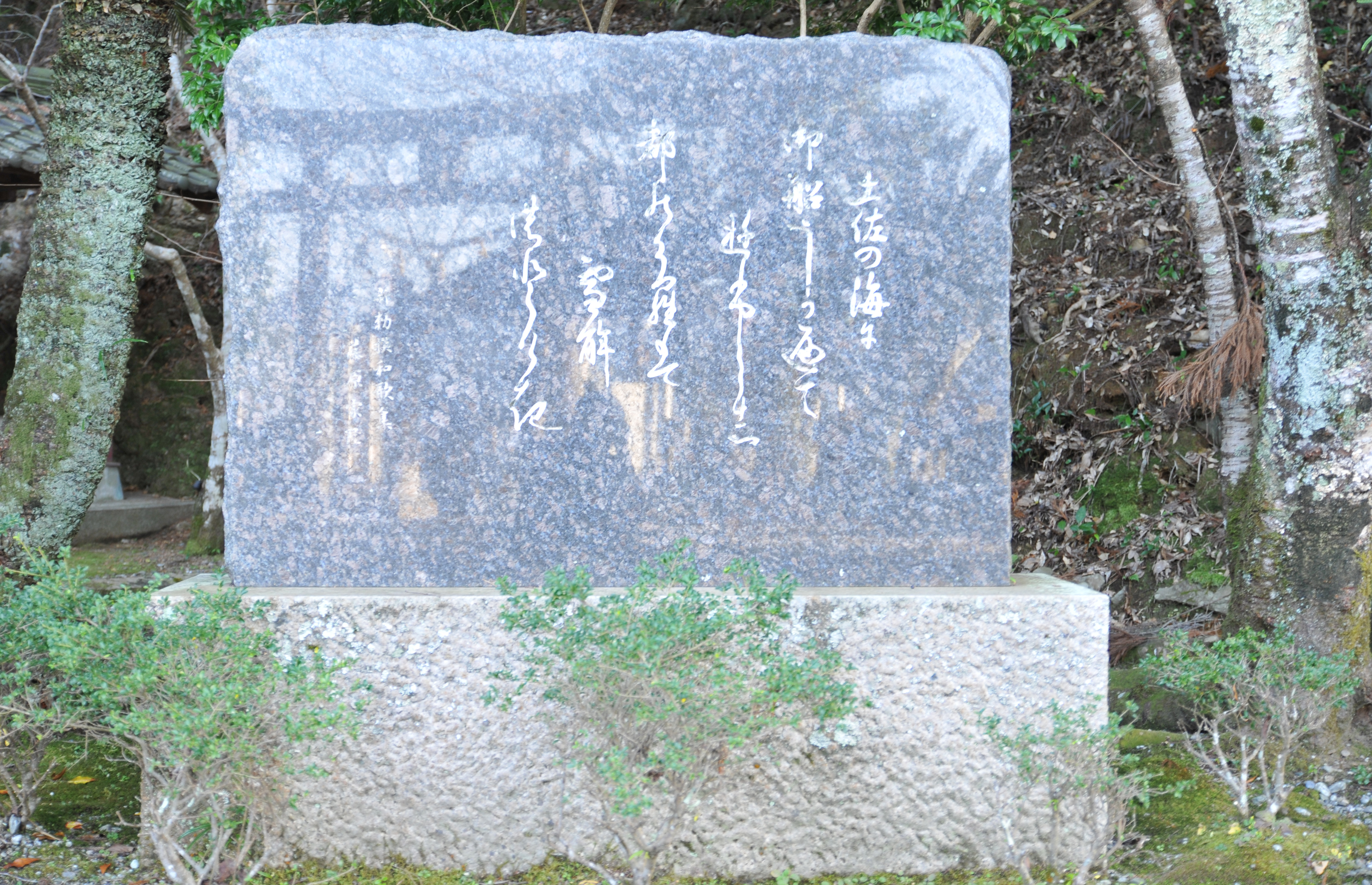 Waka stone monument of Fujiwara no Ietaka, Otonashi-jinja